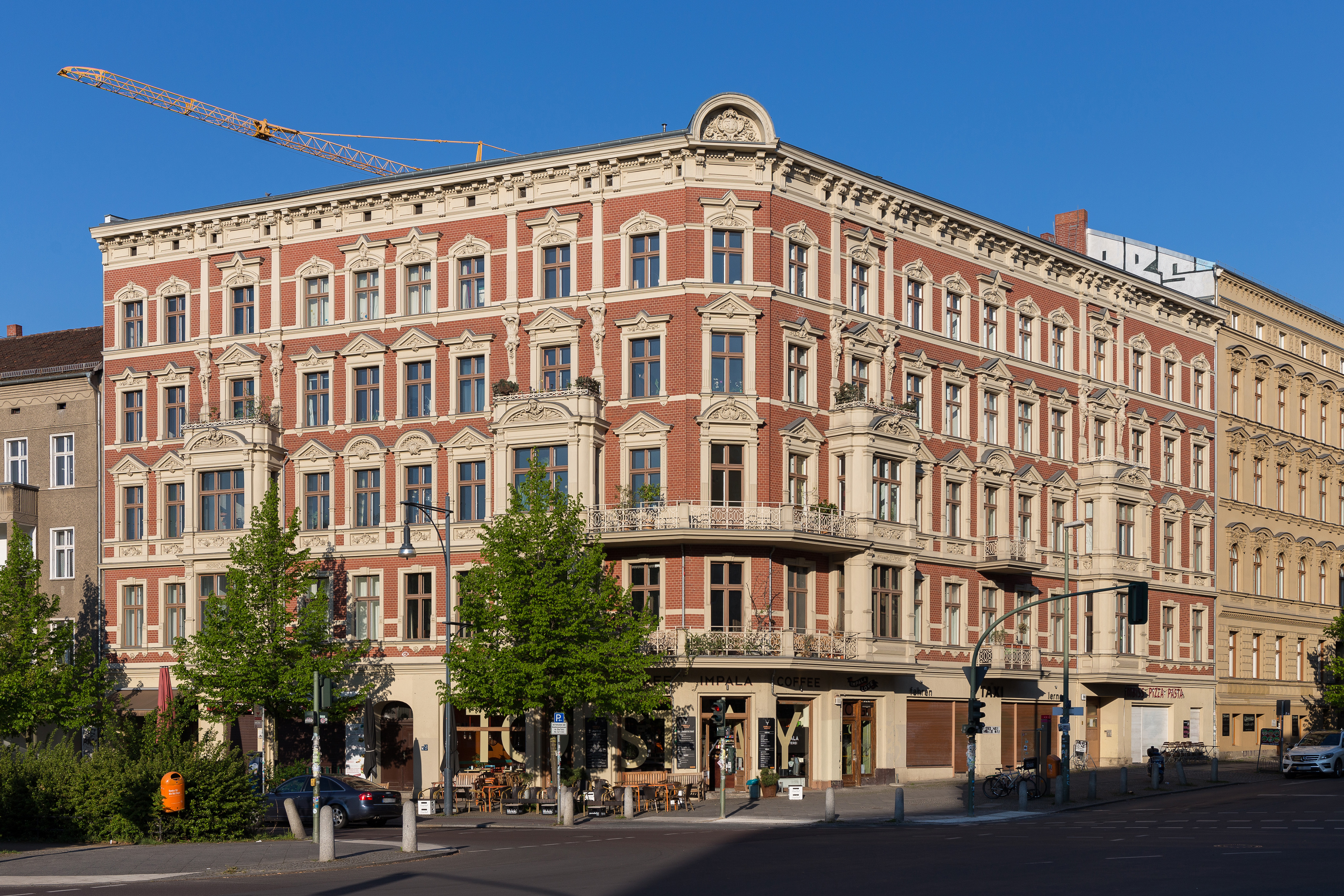 Schönhauser Allee 173 in Berlin. Apartment building, 1887-89 by Hermann Wolff.